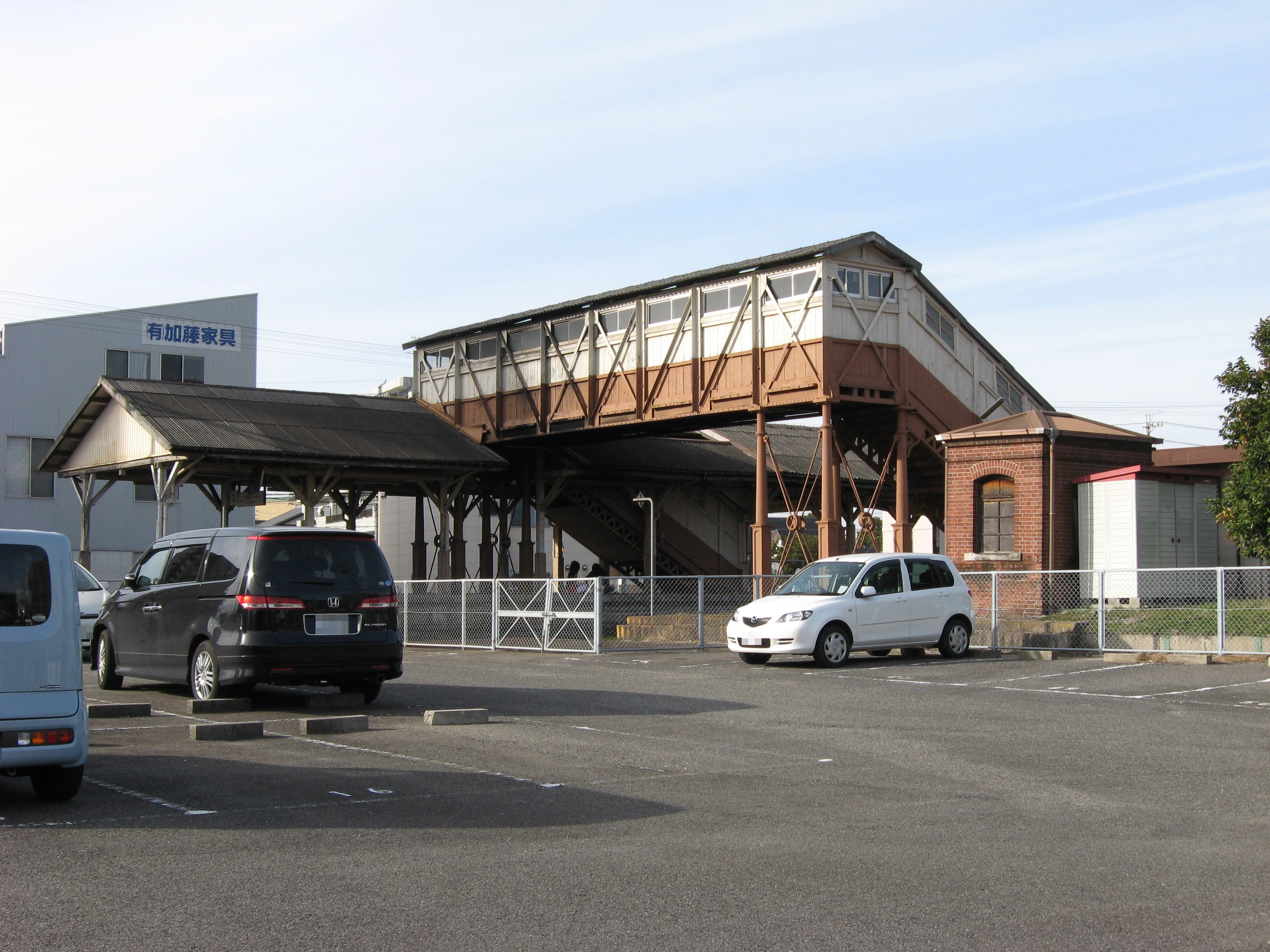 Foot bridge at JR Central Taketoyo Line Handa Station, the oldest one among the foot bridges still in use at the JR stations